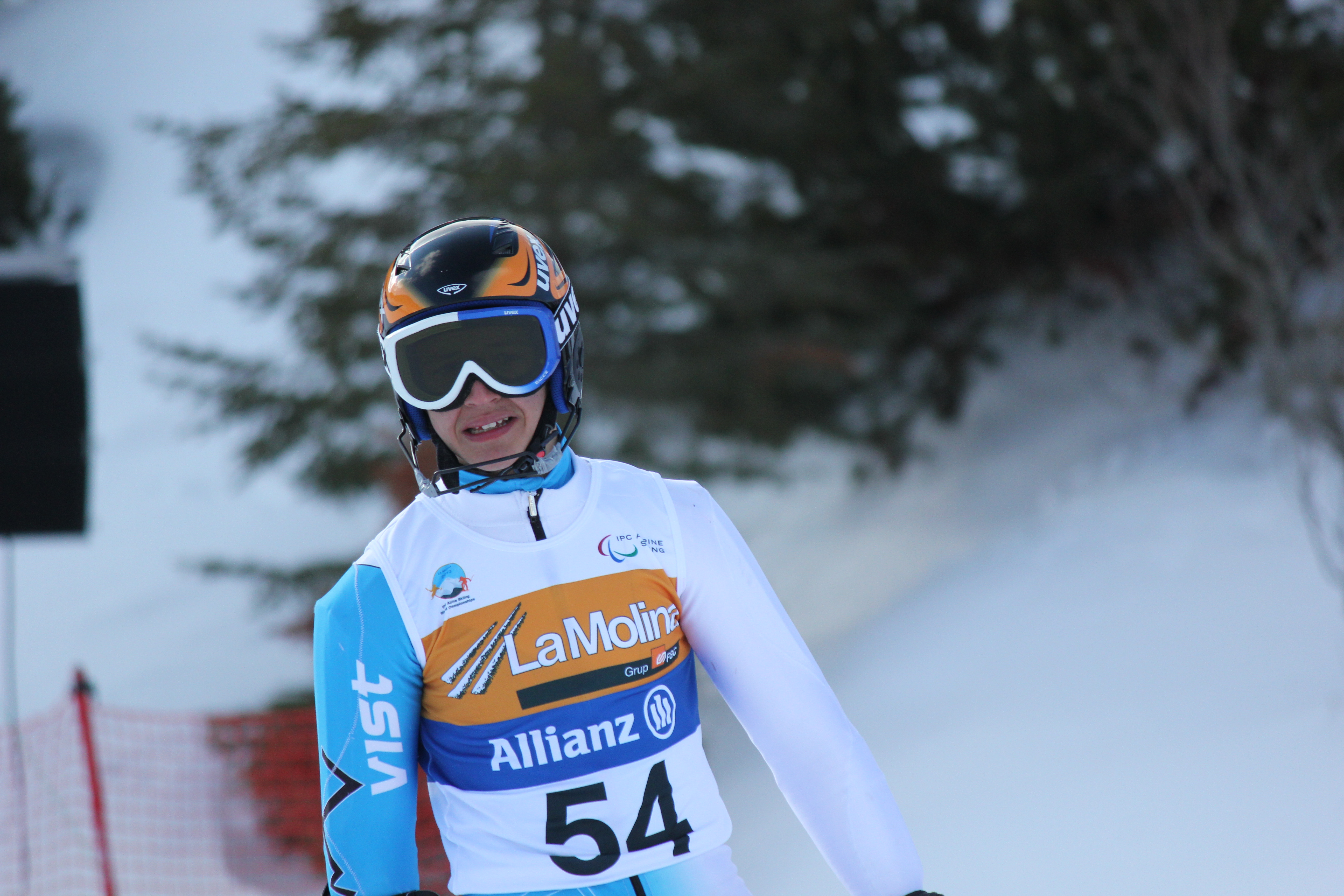 2013 IPC Alpine World Championships at La Molina in Spain. Day 3 of competition. Slalom final. Alexy Bugaev of Russia